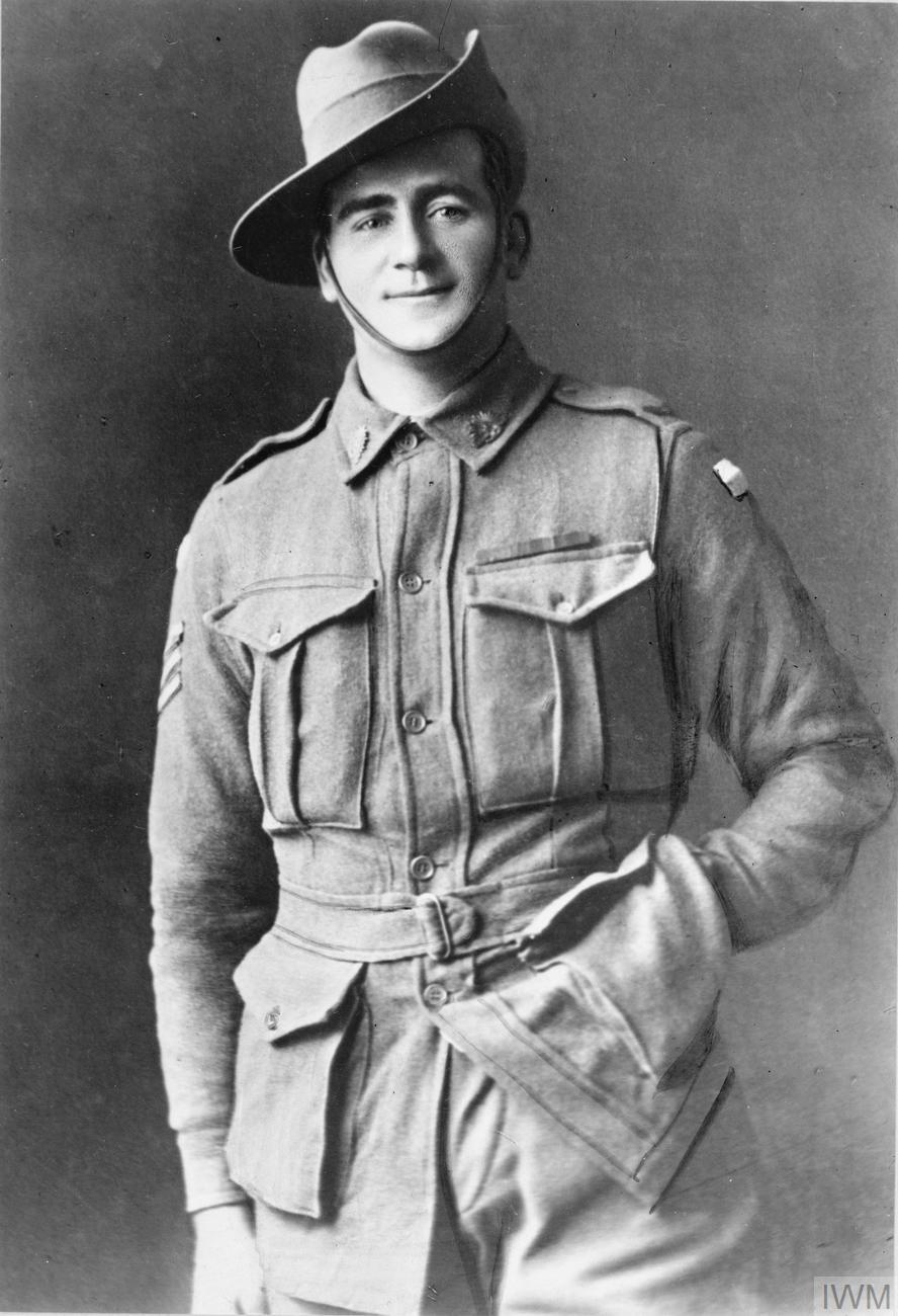 Portrait of Sergeant John Woods Whittle VC DCM, an Australian recipient of the Victoria Cross during the First World War.